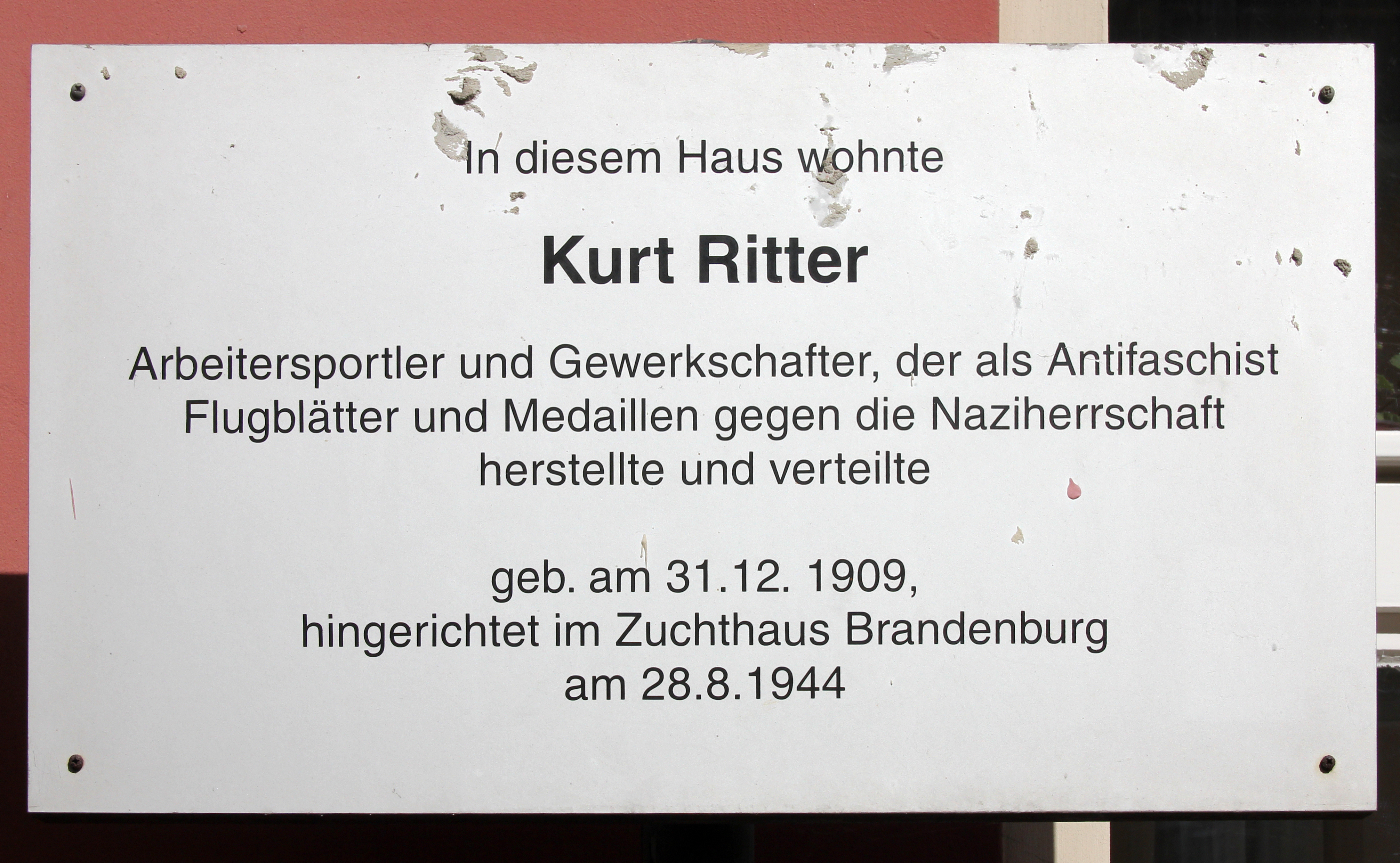 Memorial plaque, Kurt Ritter, Matternstraße 16, Berlin-Friedrichshain, Germany